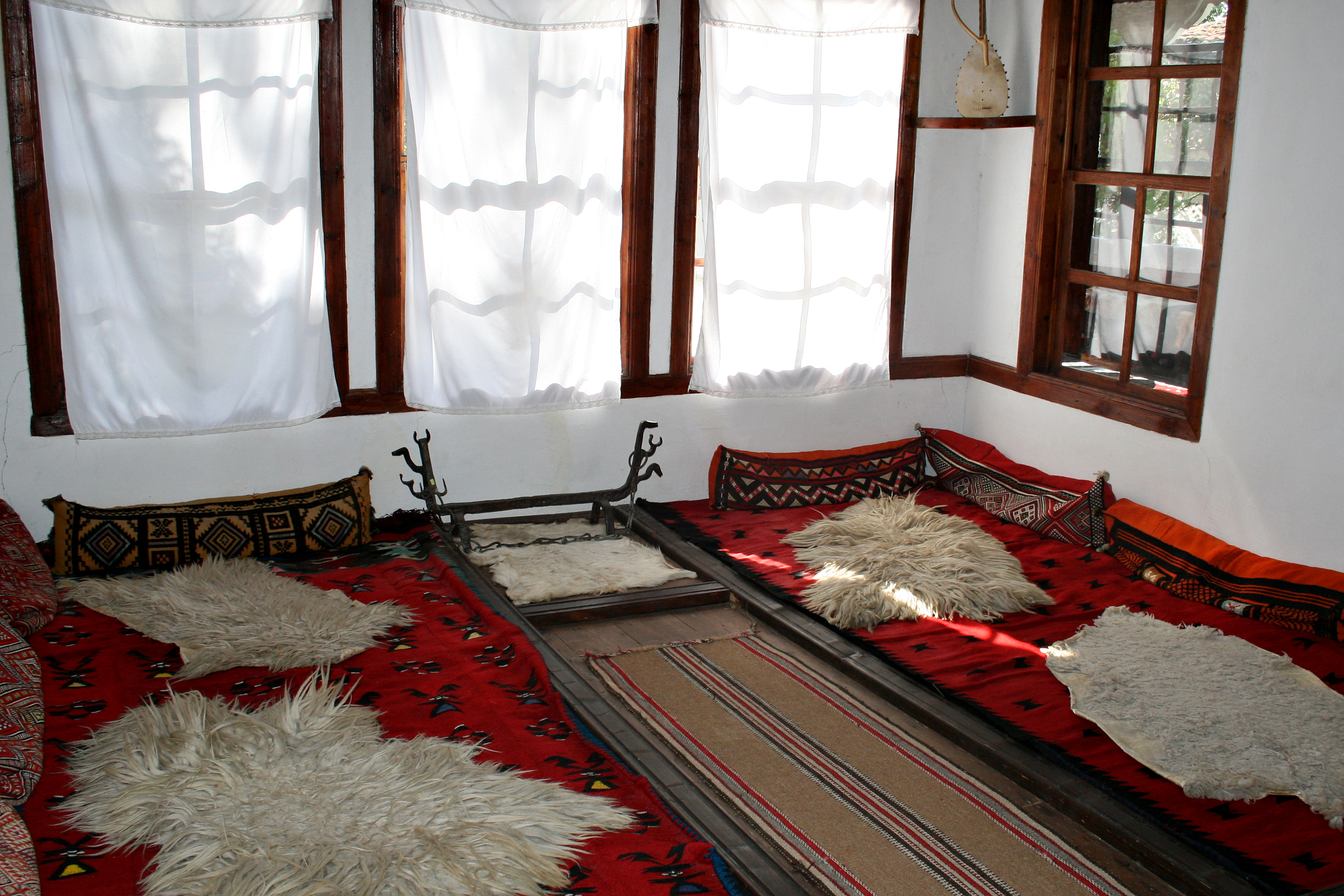 ( Ethnological Museum )